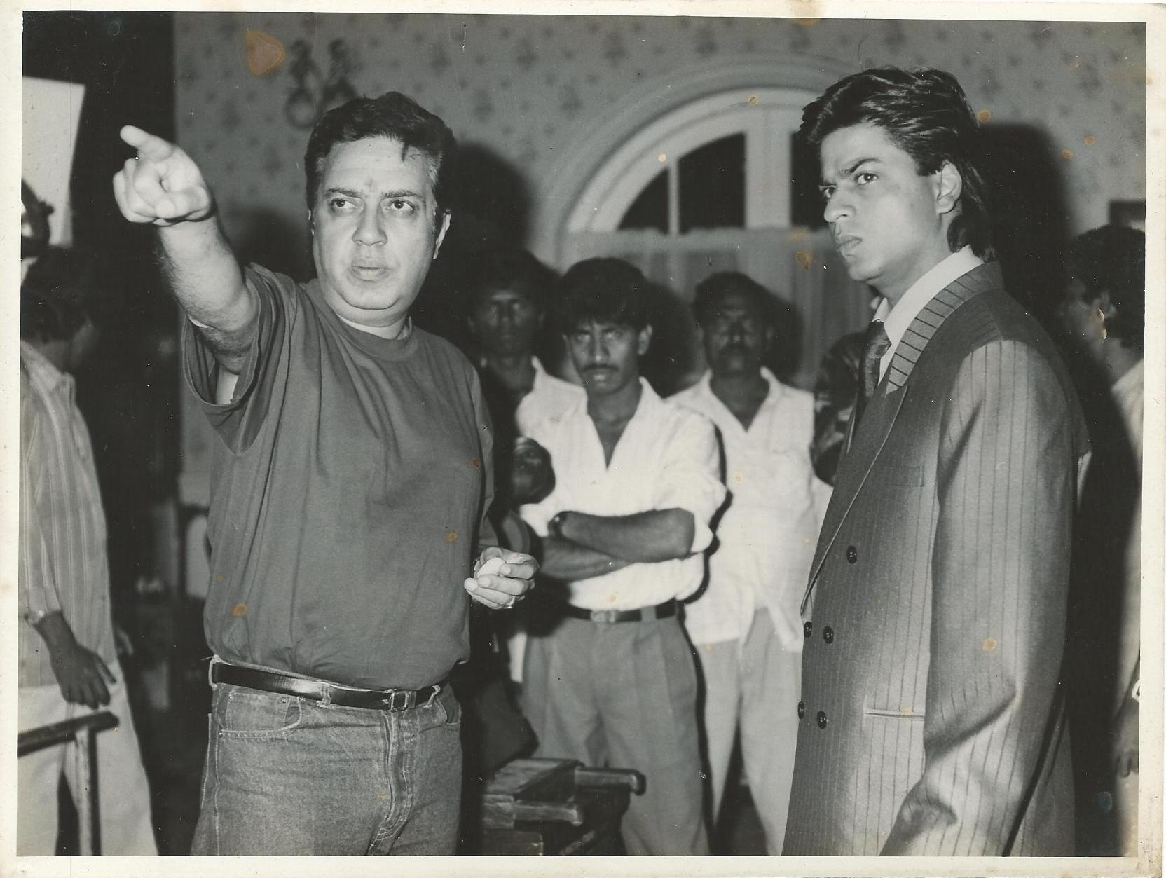 Praveen Nischol directing Sharukh Khan on the sets of English Babu Desi Mem